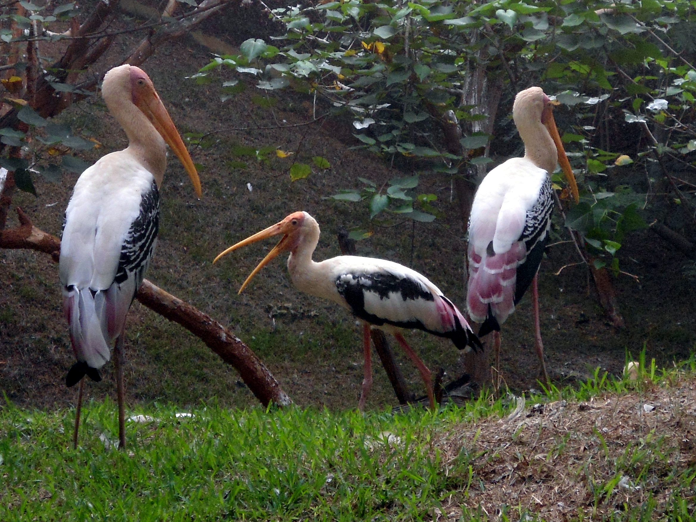 Painted Stork Mycteria leucocephala at Indira Gandhi Zoological park, Visakhapatnam